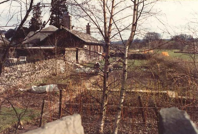 Torver Station (former) near Coniston Disused station, still a residential home. You could still see the line of the platform in this photo. Torver was on the branchline from Foxfield on the coast, through Broughton in Furness and ended at Coniston. Torver_railway_station